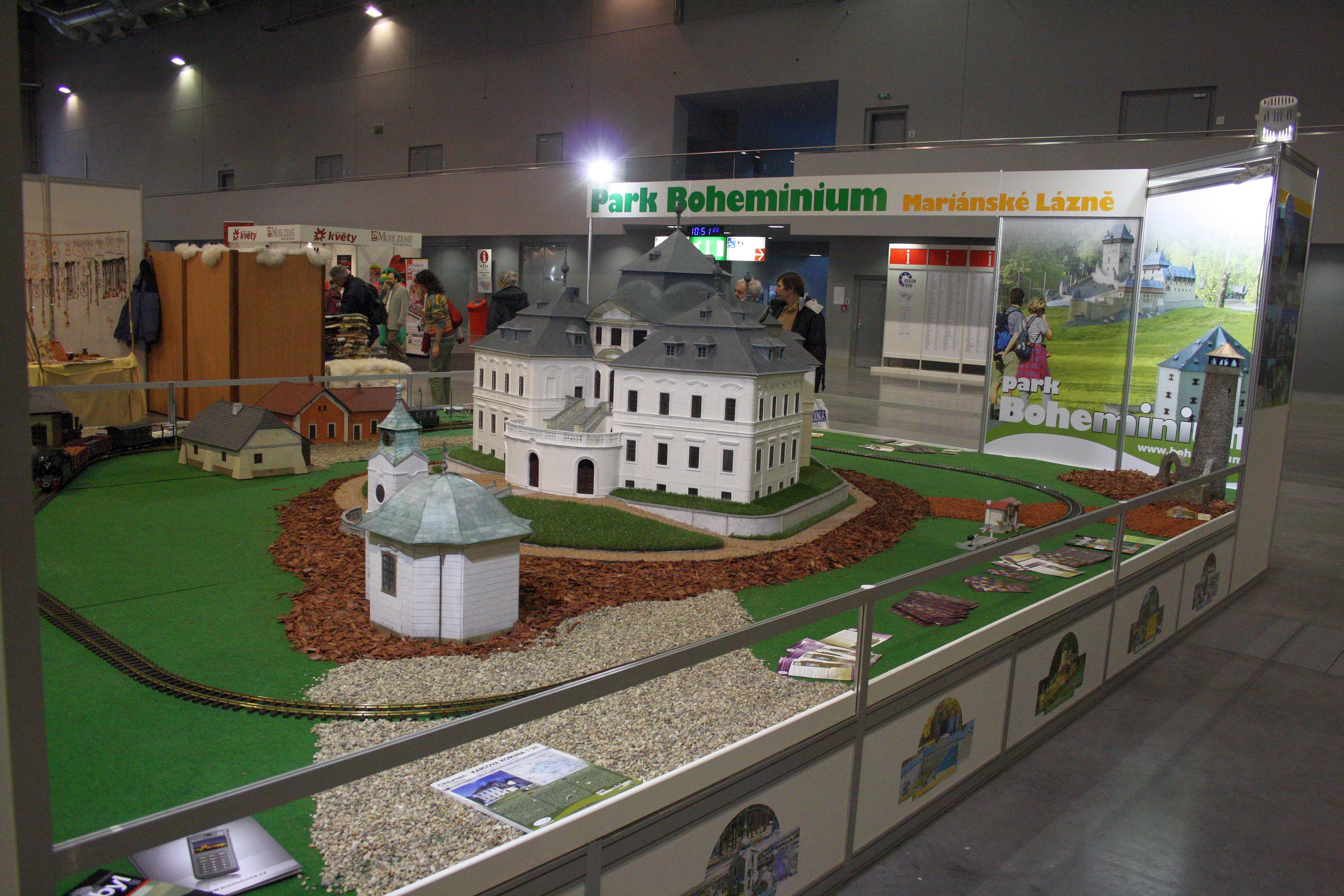 Boheminium Park presentation at Regiontour 2010.